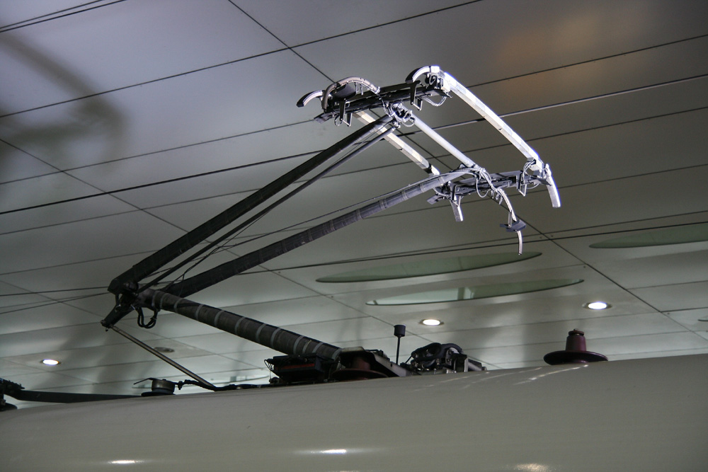 Lighted measuring pantograph of the ICE S